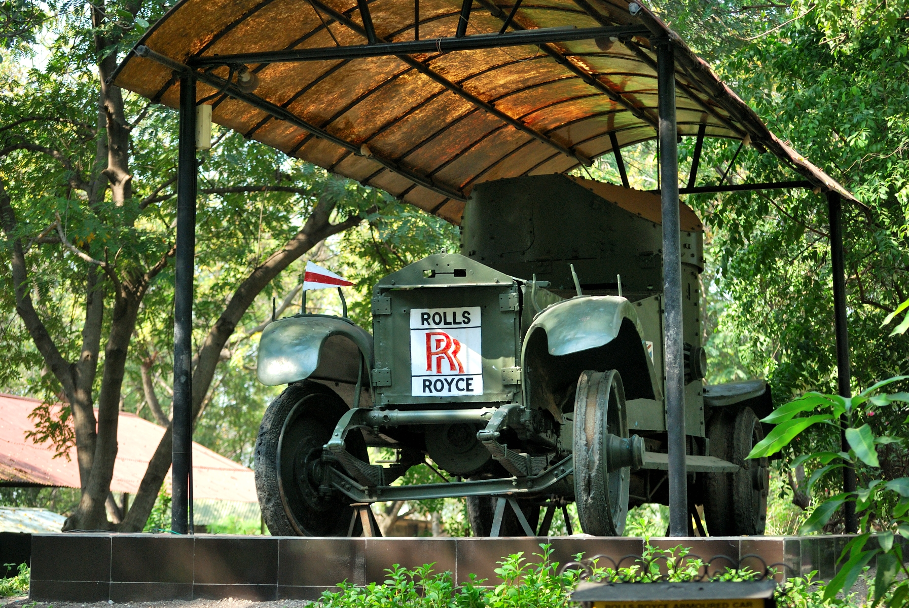 Rolls Royce Armoured Car in the Cavalry Tank Museum in Ahmednagar, Maharashtra, India